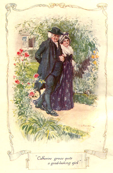 Colour illustration of a 1907 edition of Northanger Abbey (Jane Austen's novel), by C. E. Brock (died 1938)